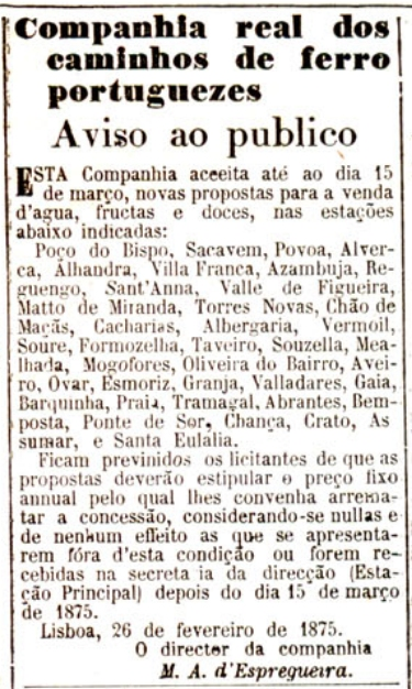 Advertisement of the Companhia Real dos Caminhos de Ferro Portugueses (Royal Company of the Portuguese Railways), for the opening of the proposals for the sale of fruit, water and candy at several train stations on its Northen and Eastern Railways. This advertisement continues one published on the 8th of February of the same year. This image was published on the Diario Illustrado newspaper No. 861, of 9th March 1875, and scanned by the Biblioteca Nacional de Portugal.